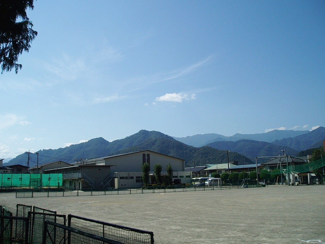 Playground of Ohtsuki City College located in Ōtsuki, Yamanashi, Japan.